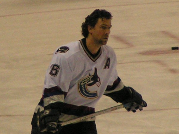 Trevor Linden while warmup in San Jose